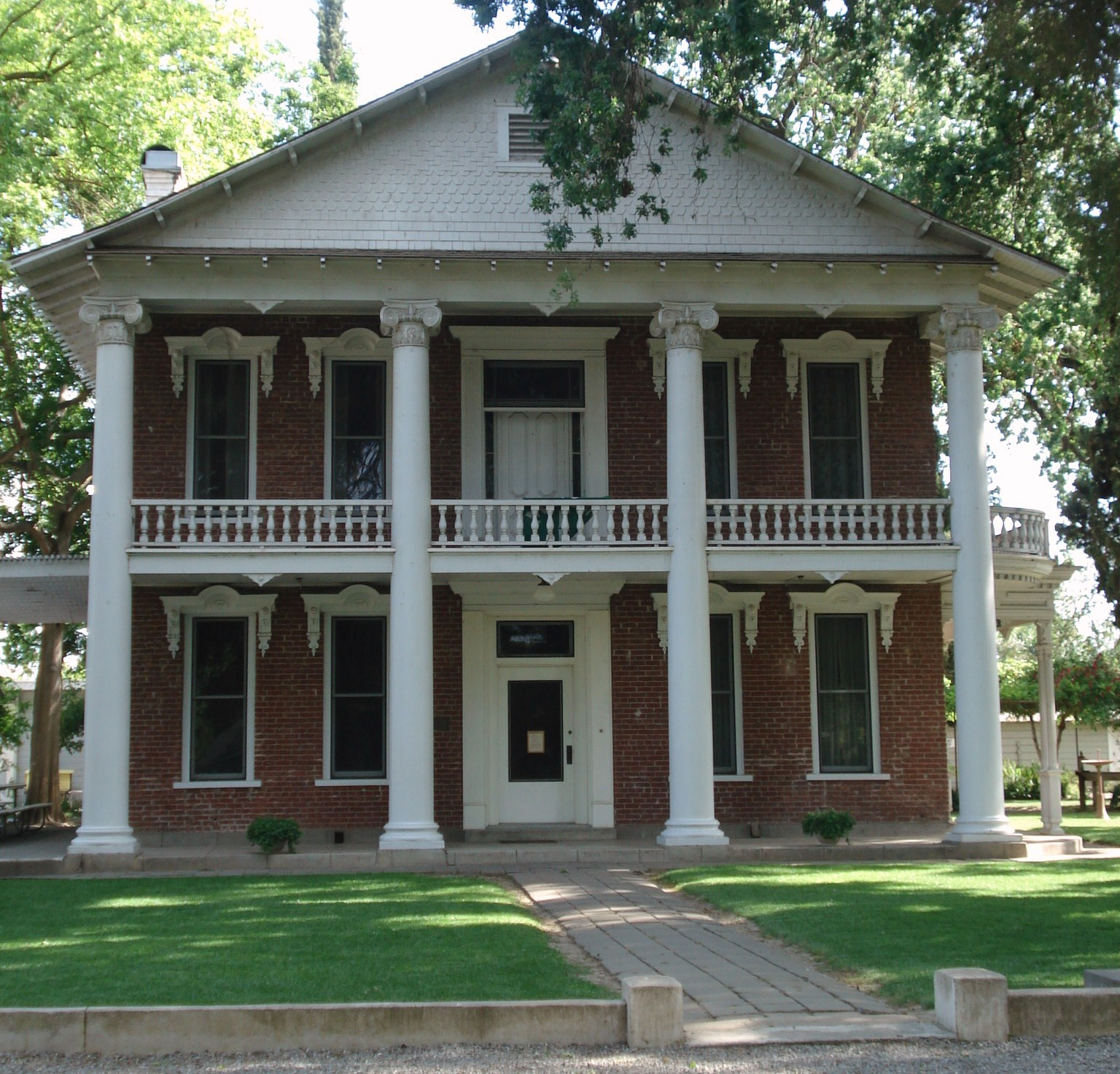 The facade of the Gibson Mansion (also known as the Gibson House + Yolo County Historical Museum) — in Woodland. Georgian Revival architecture.